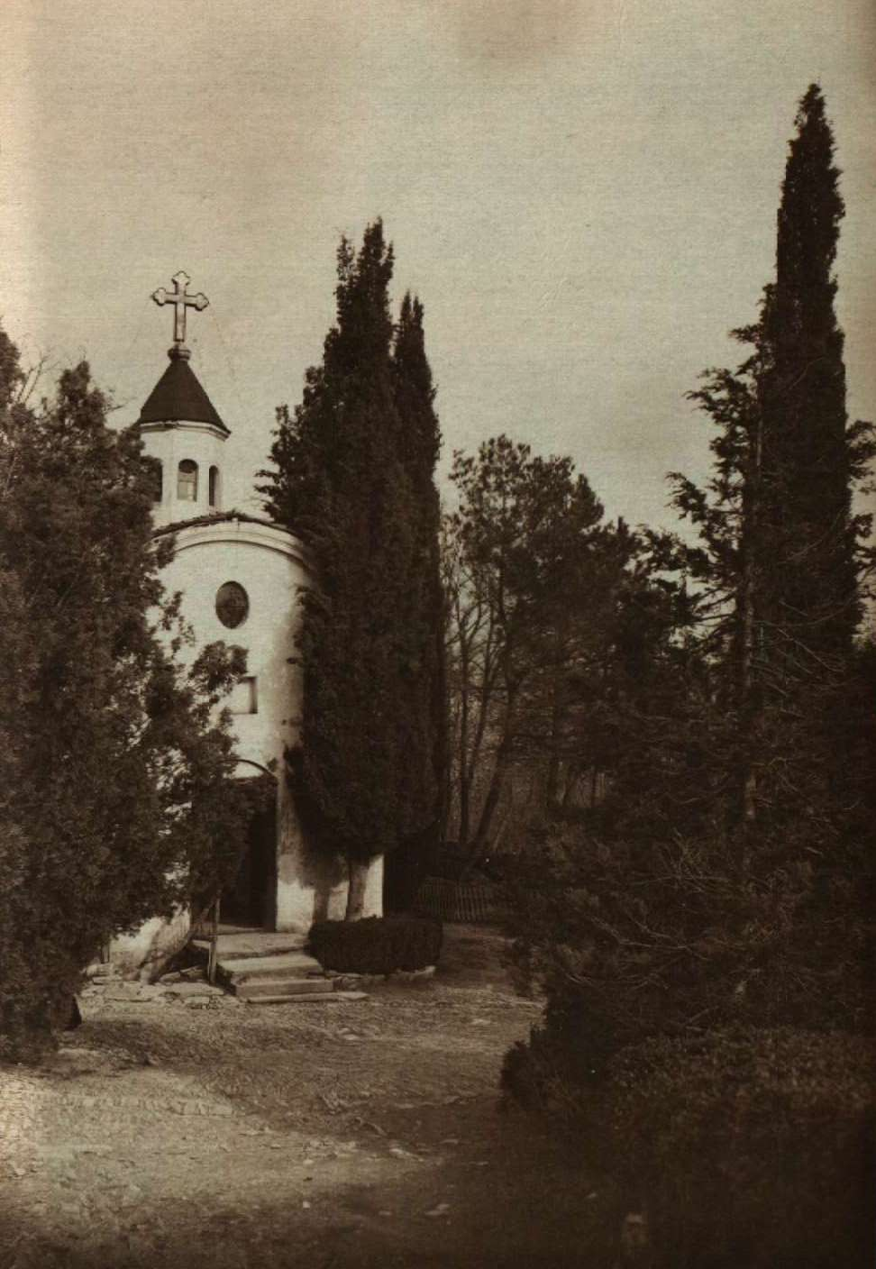 Ayazmo park, Stara Zagora, Bulgaria